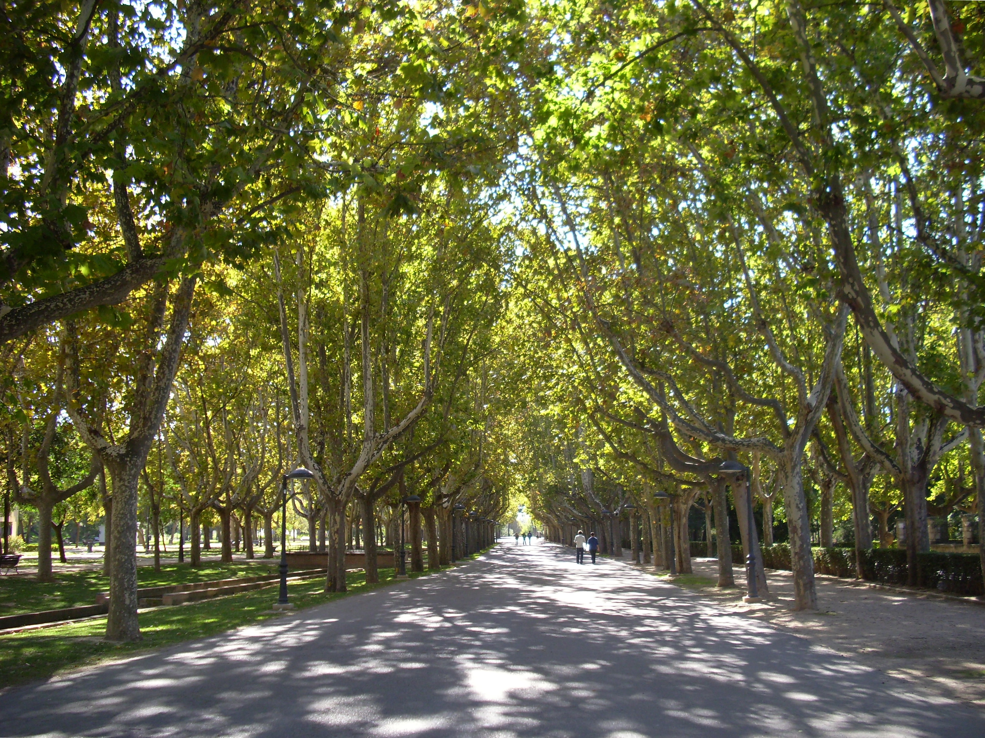 Picture of the José Antonio Labordeta Big Park in Zaragoza, Spain, in 2010.